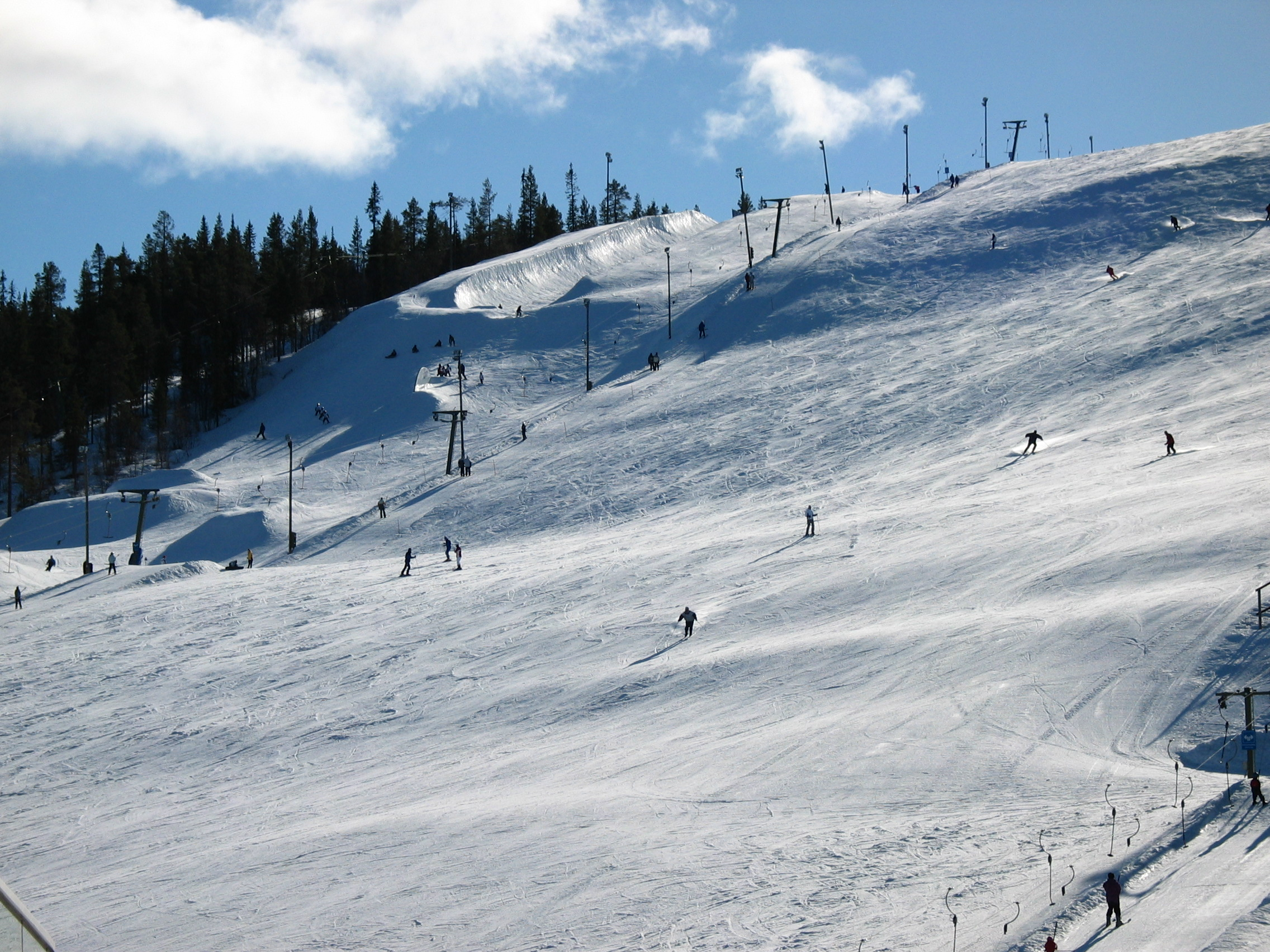 Levi Ski Resort in Kittilä, Finland